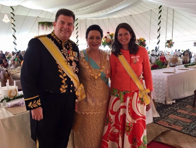 Princess Royal with foreign diplomatic guests at the banquet for the coronation in the royal gardens hosted by princess Angelika